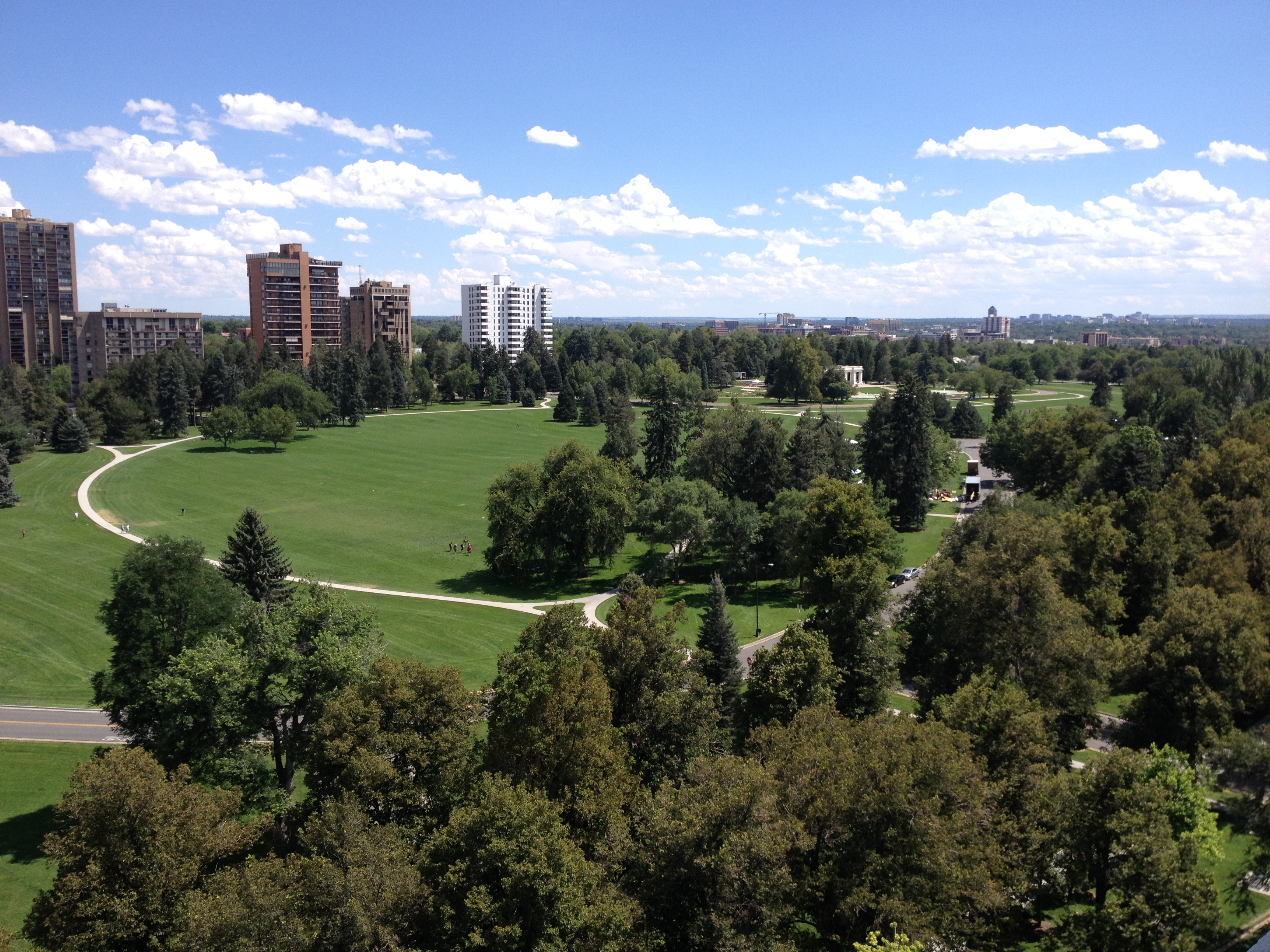 A view of Cheesman Park in Denver, CO. Looking down from the northwest corner.